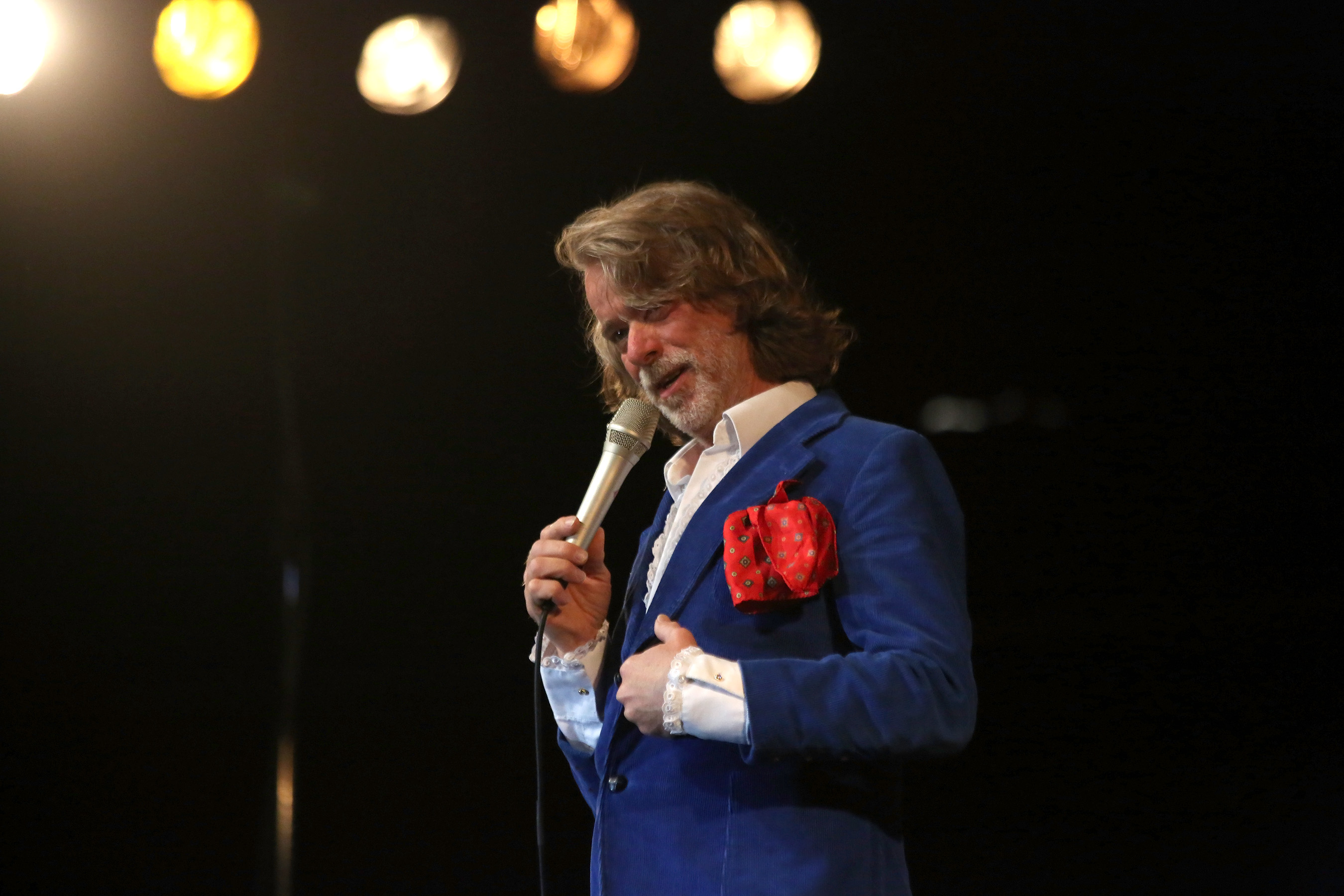 Helge Schneider, concert during Jazz Fest Wien 2013 at Wiener Stadthalle (Vienna, Austria)